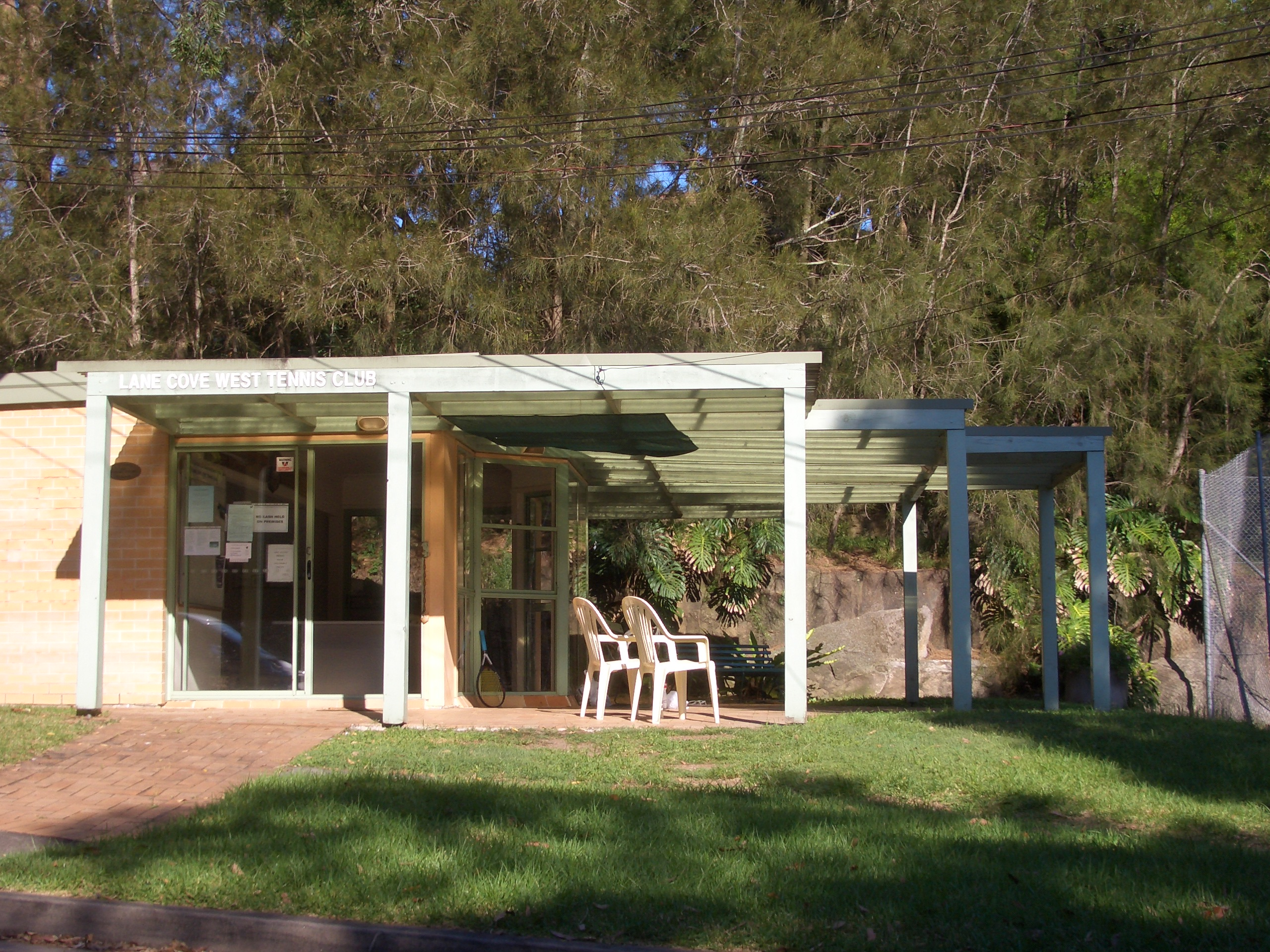 Lane Cove West Tennis Club